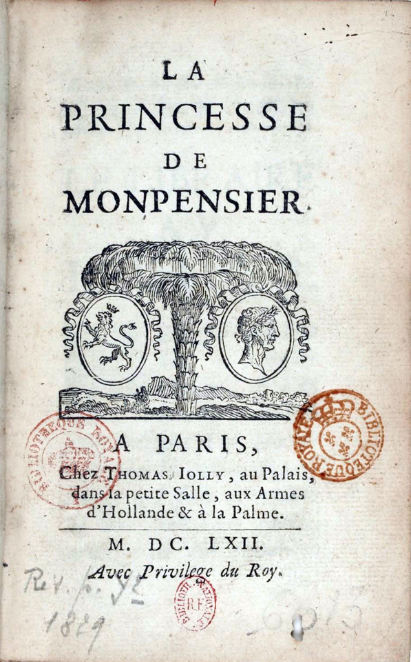 Title page of Marie-Madeleine Pioche de la Vergne, comtesse de la Fayette's La Princesse de Montpensier, Paris, Thomas Jolly.